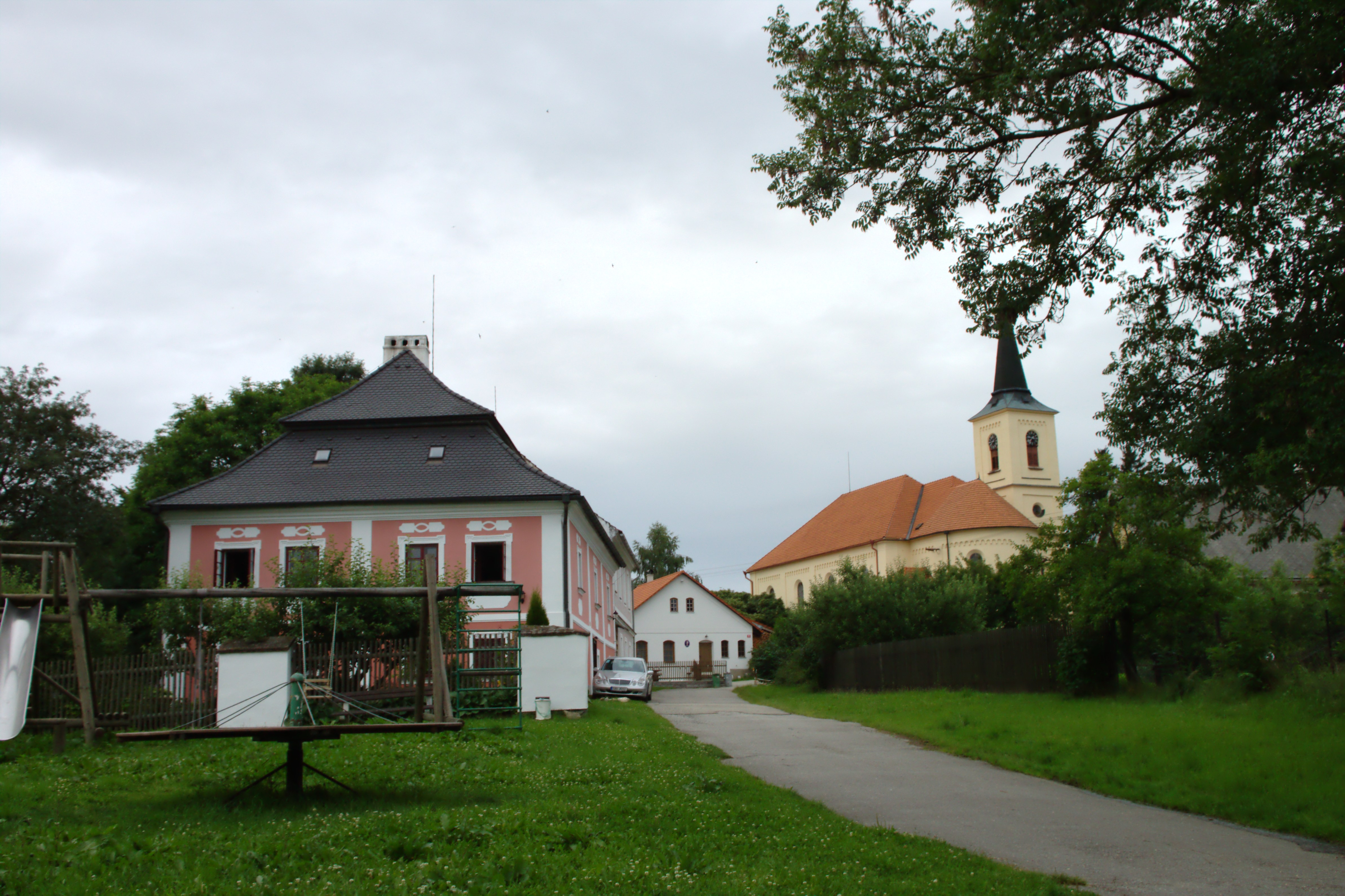 Church in Hartvíkov, Tábor District, CZ